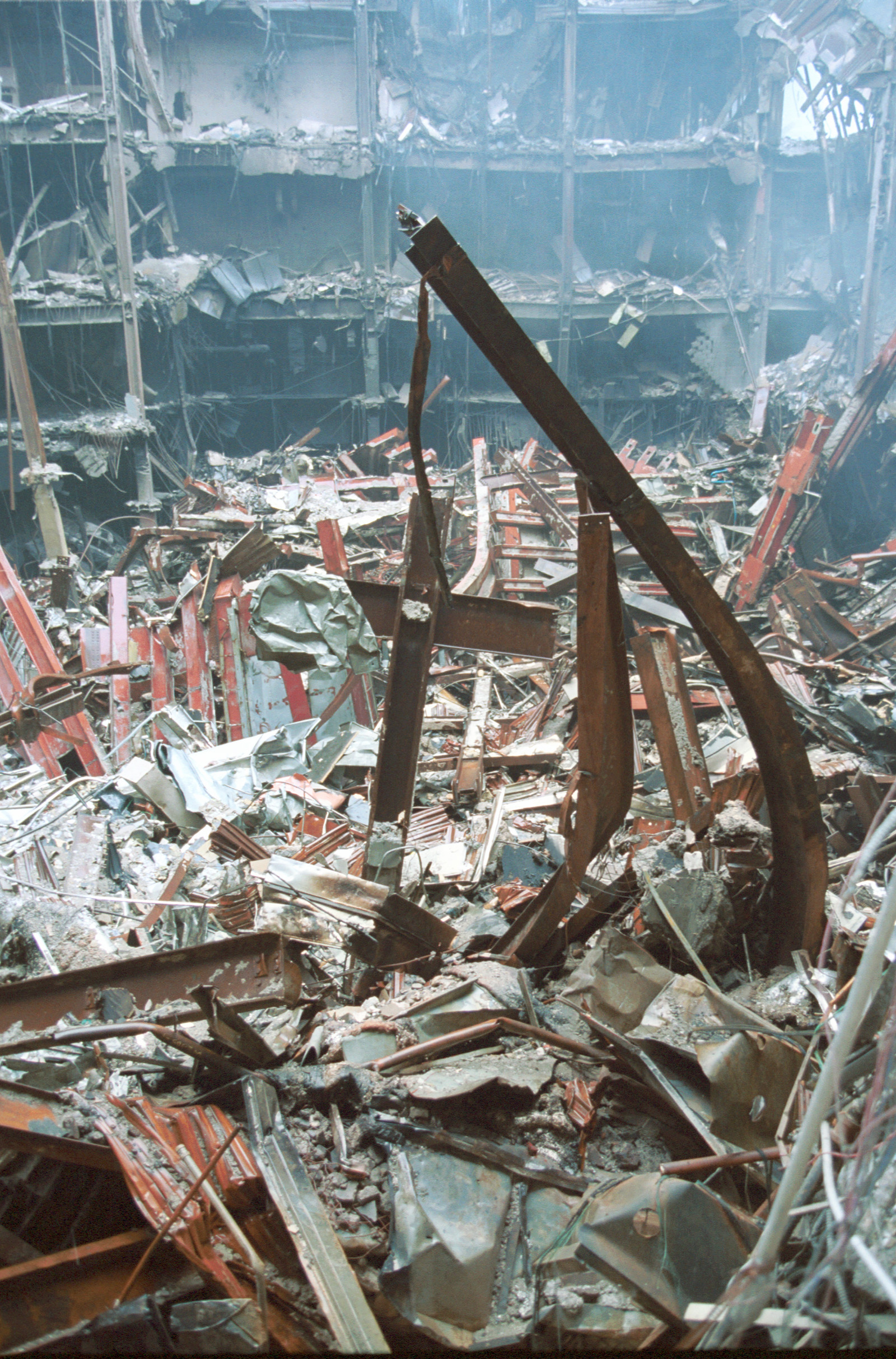 World Trade Center cross in the debris of 6 World Trade Center. Original description: "This debris field in the center of the U.S. Customhouse at 6 World Trade Center was caused by pieces that fell from the North Tower. Steel beams formed several crosses in the midst of the debris field."